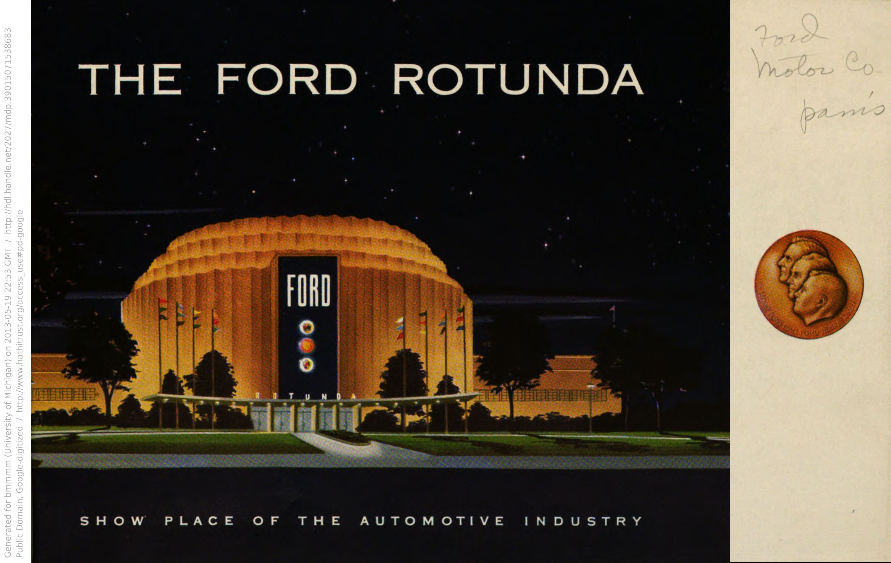 Ford Rotunda Brochure